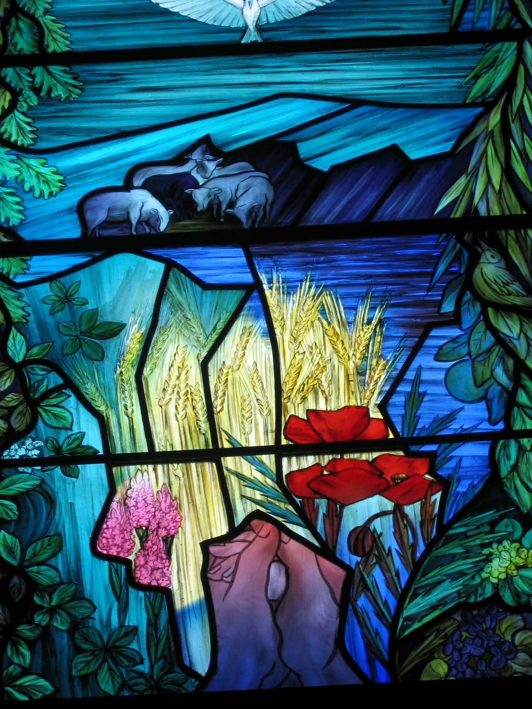 Gullane church window, East Lothian, Scotland